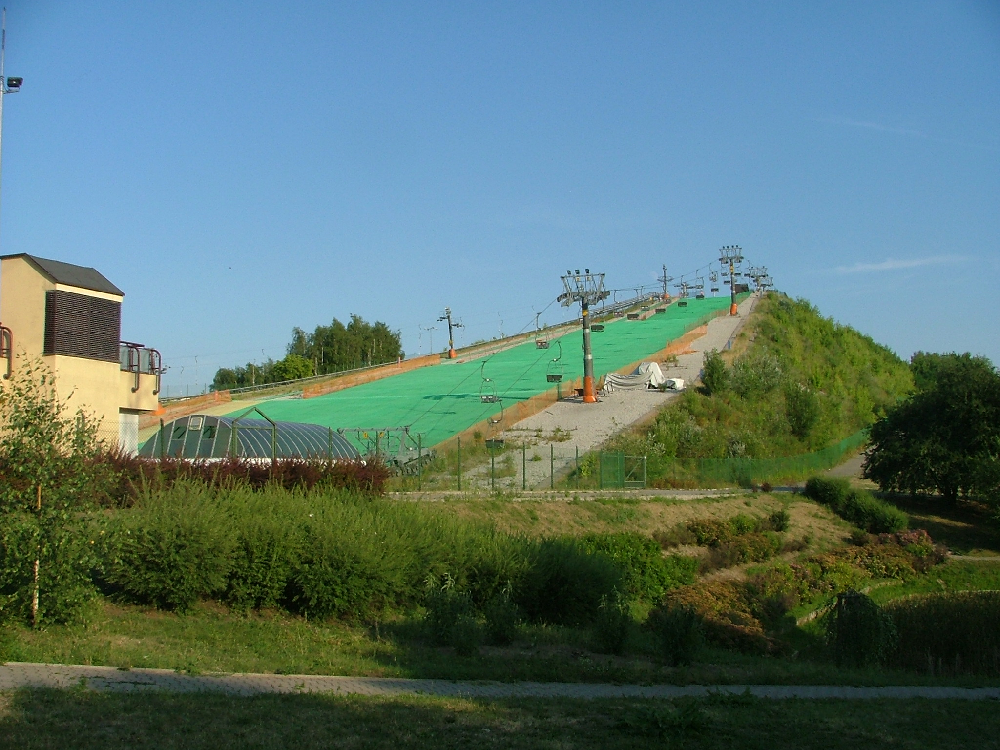 Poland, Warsaw, Szczęśliwicki Lake